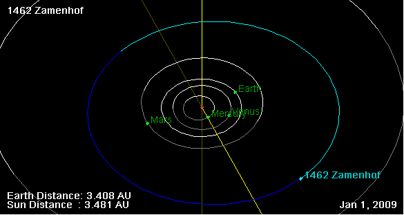 1462 Zamenhof orbit, and his position on 01 Jan 2009 (NASA Orbit Viewer applet)